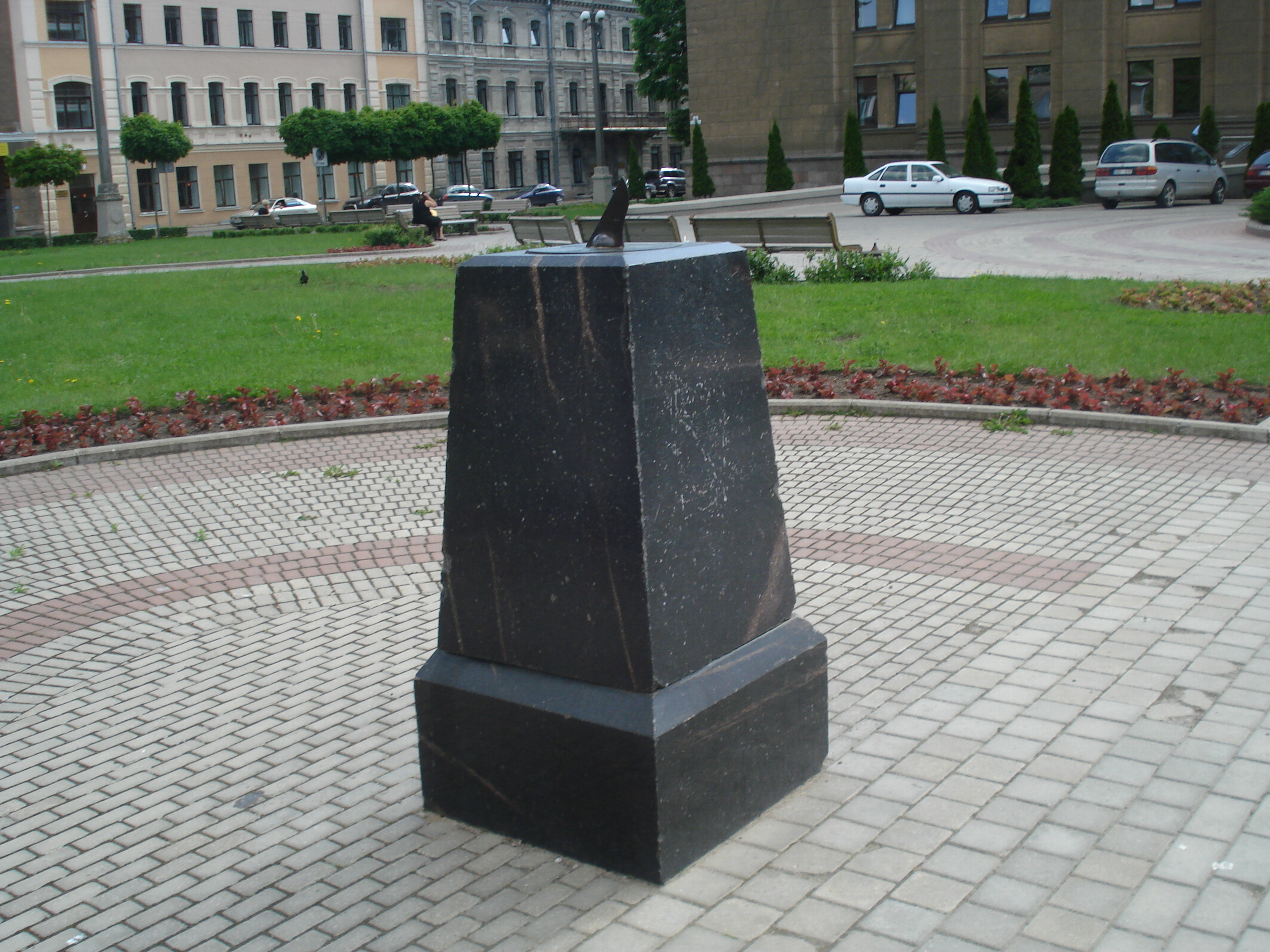 Sundial in Daugavpils (1910) located Vienibas Street 13 close to the building of Daugavpils University